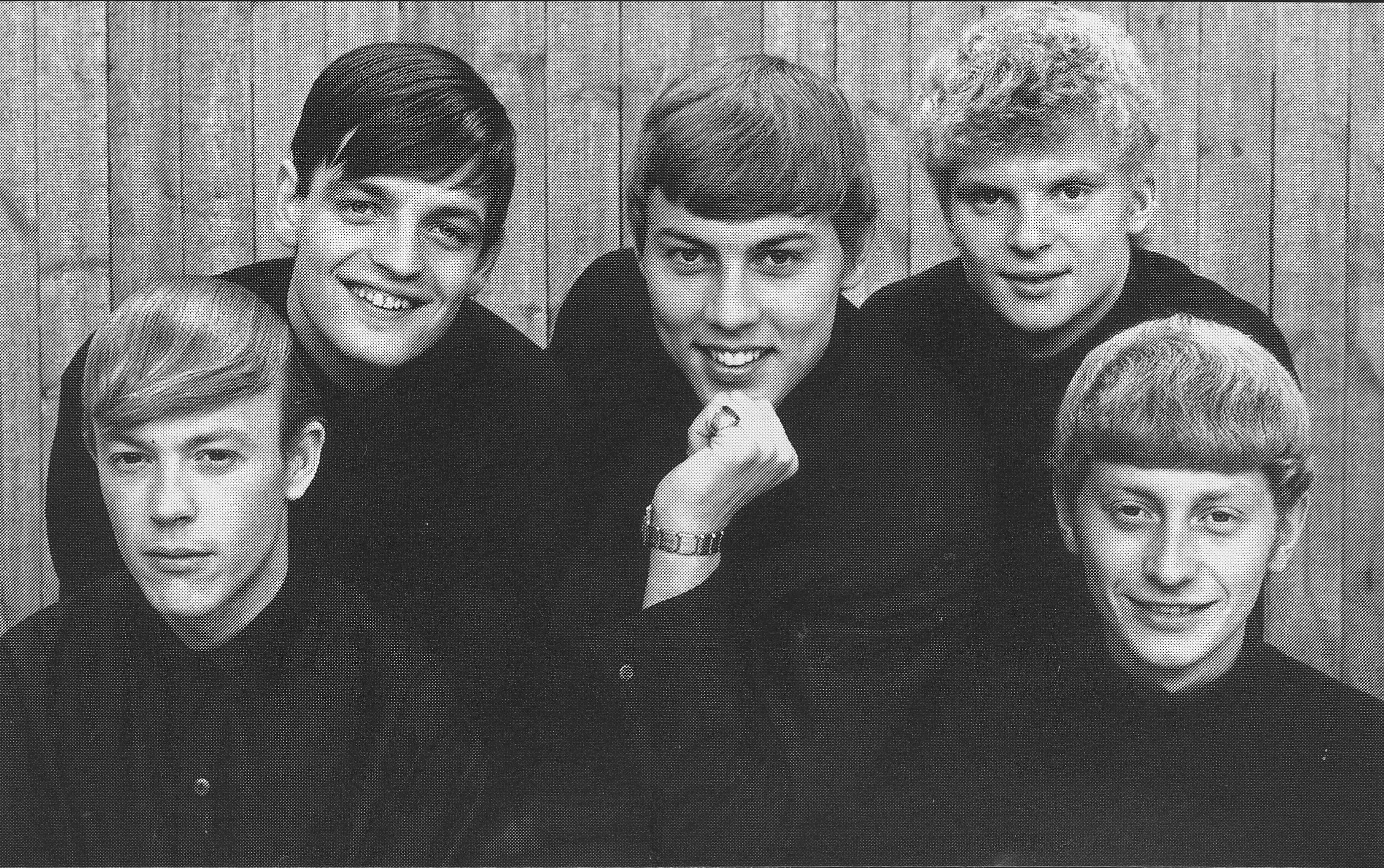 The band Islanders. From l to r: Kurt Mattson, Stig Selin, Danny, Pepe Willberg, Kaj Wallin